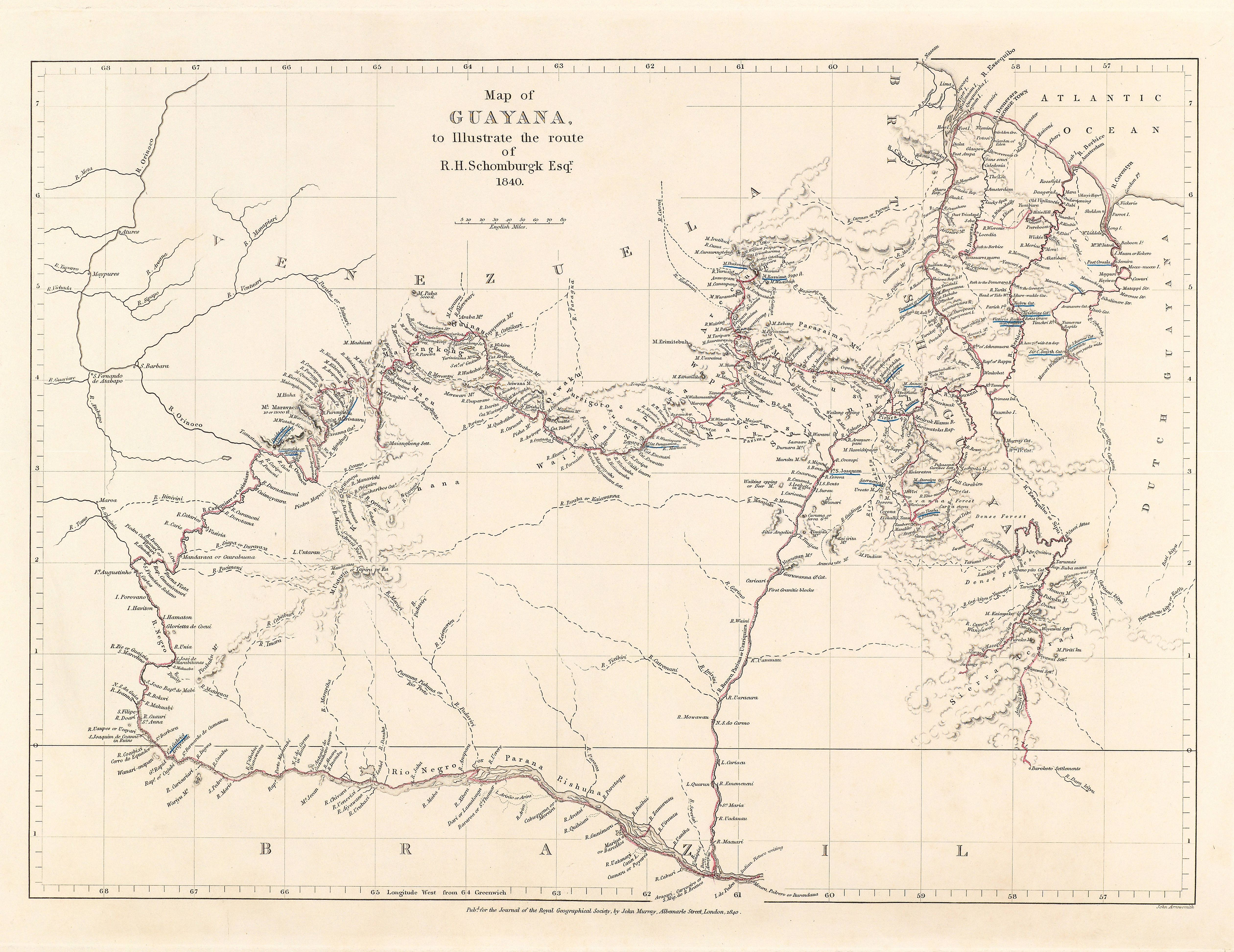 "Map of Guayana to illustrate the route of R. H. Schomburgk Esquire"